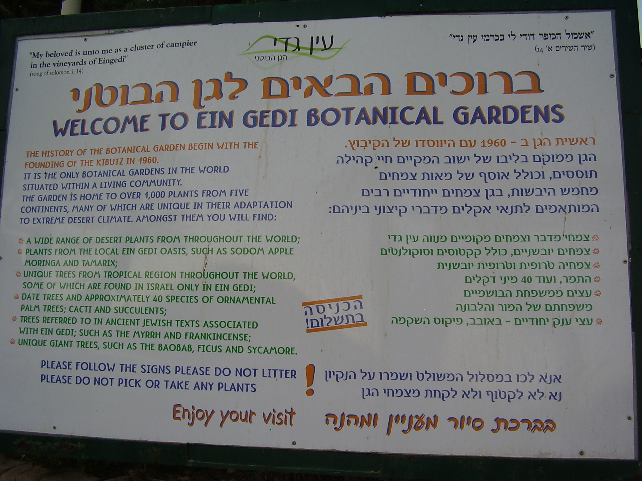 Ein Gedi Botanical Garden